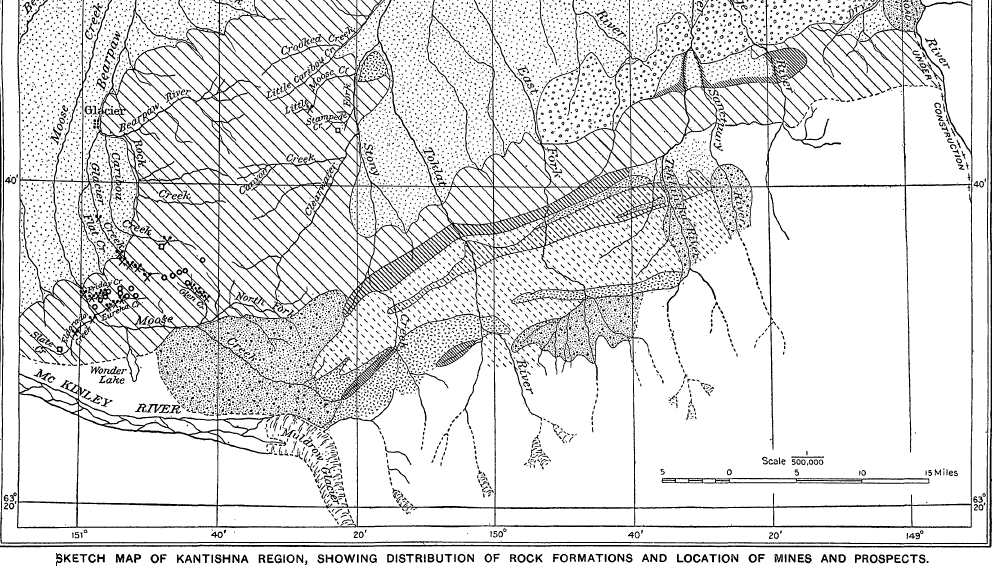 KantishnaGeologicMap